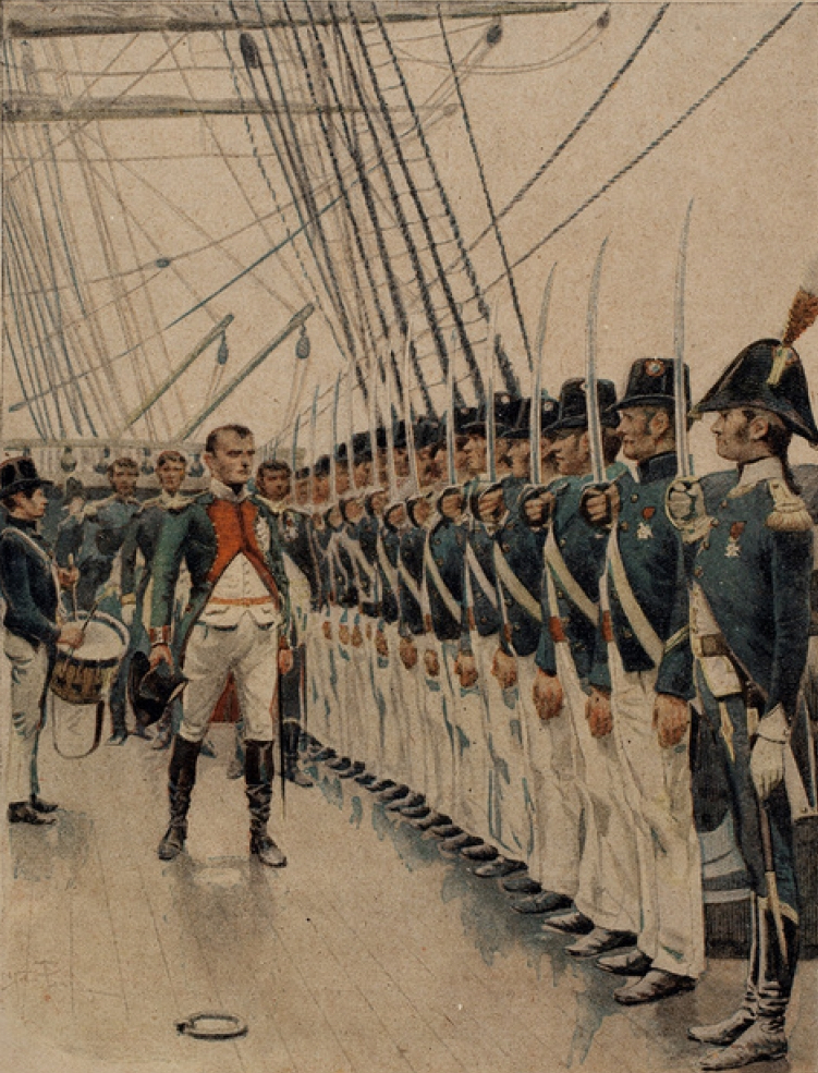 Série"Gloires maritimes" n° 12 . "H et Cie". Recto: Napoléon inspecte l'équipage du "Courageux" (1811). Mention imprimée: "Librairie Papeterie Sidot frères, Nancy". Verso: récit : "Visite de Napoléon à Cherbourg (1811)". Extrait de "Mémoires pittoresques d'un officier de marine" par le capitaine Leconte.